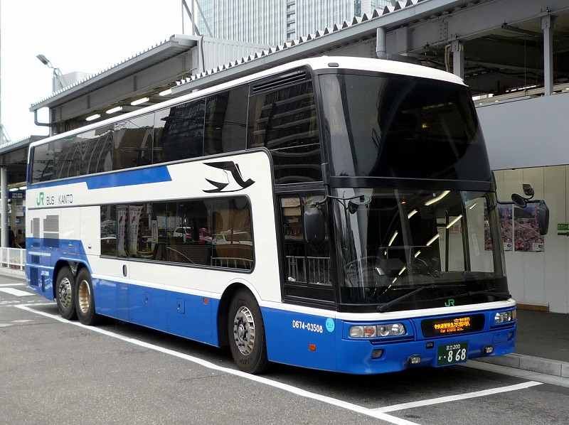 JR bus Kanto Highwaybus "Chuodo-Hirutokkyu-kyoto"(Tokyo,Shinjuku-Kyoto) Fuso Aero King(MU612TX)